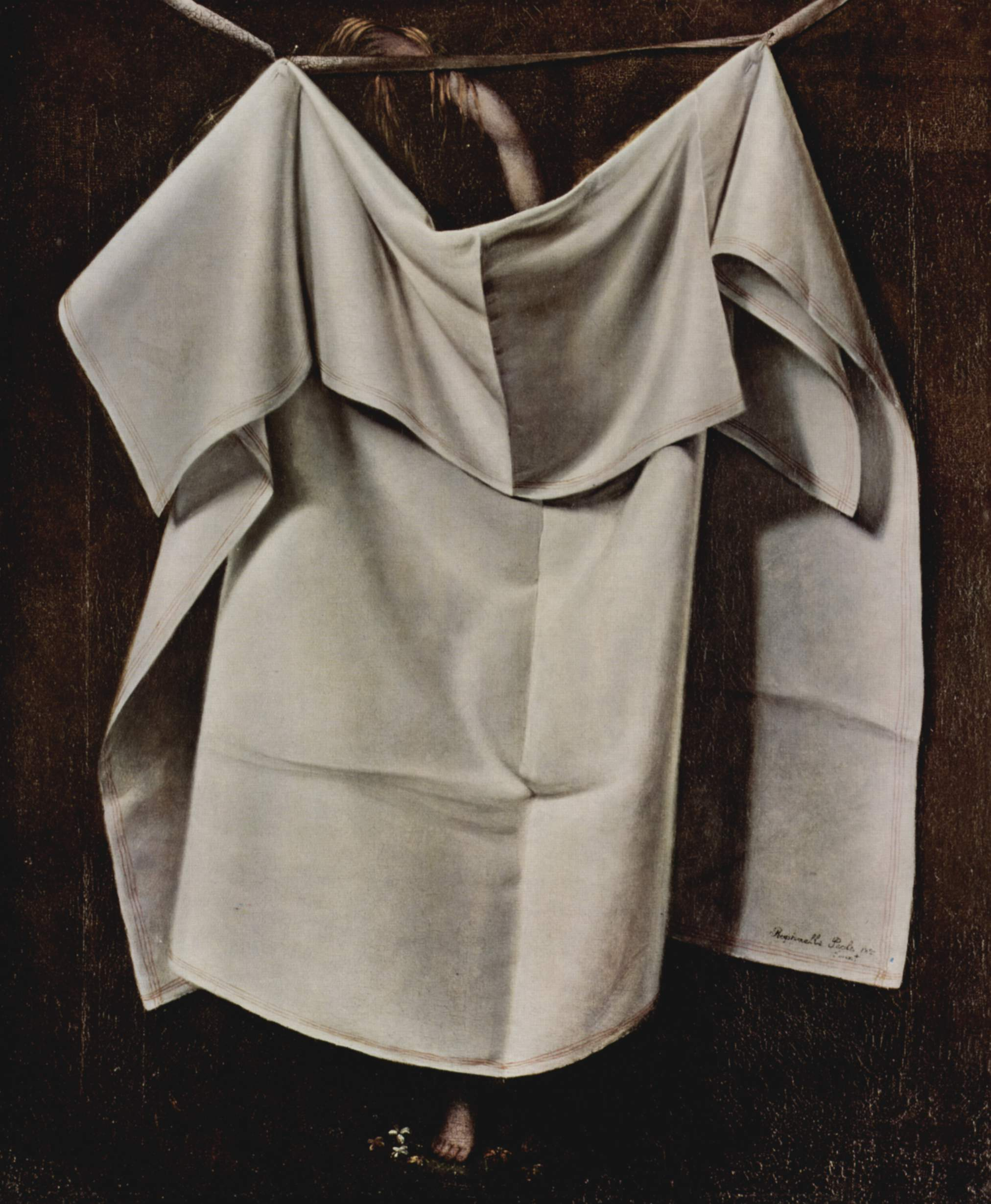 A painting which famously comments on the fact that depictions of nude women, however artistic, were barely acceptable for public display in the United States of the early 19th century. Her "towel" greatly resembles a pocket-handkerchief...